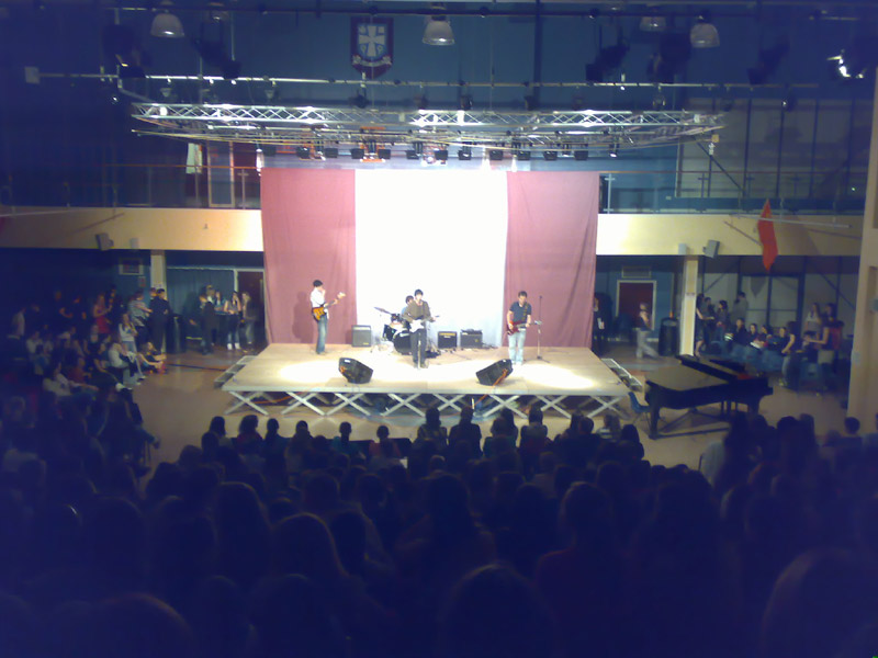 Talentshow at St Ninians High School in Scotland.